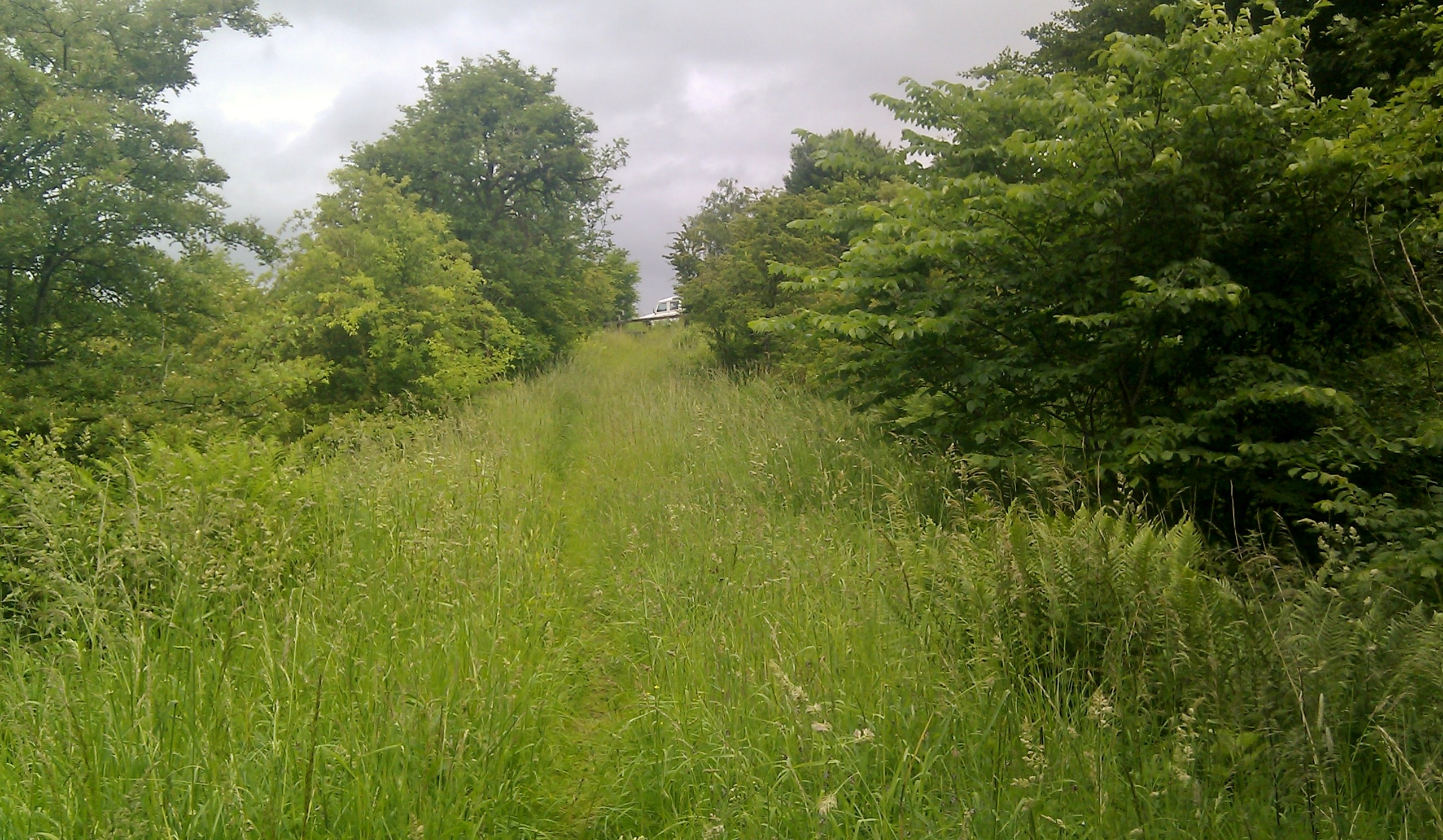 The old Linnister Farm lane, Howwood, East Renfrewshire, Scotland